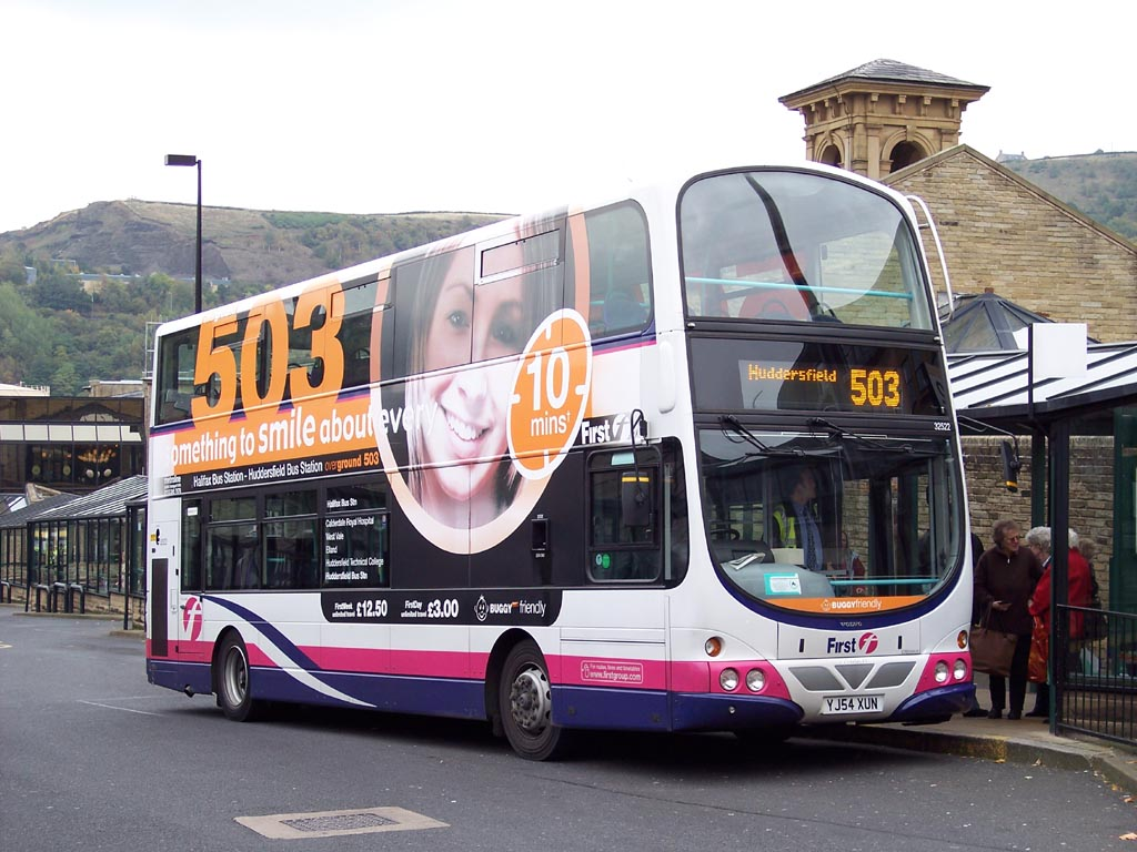 At Halifax bus station, a First West Yorkshire-owned Volvo B7TL with Wright Eclipse Gemini body waits for its departure on route 503 to Huddersfield. The bus carries large route branding for this service.